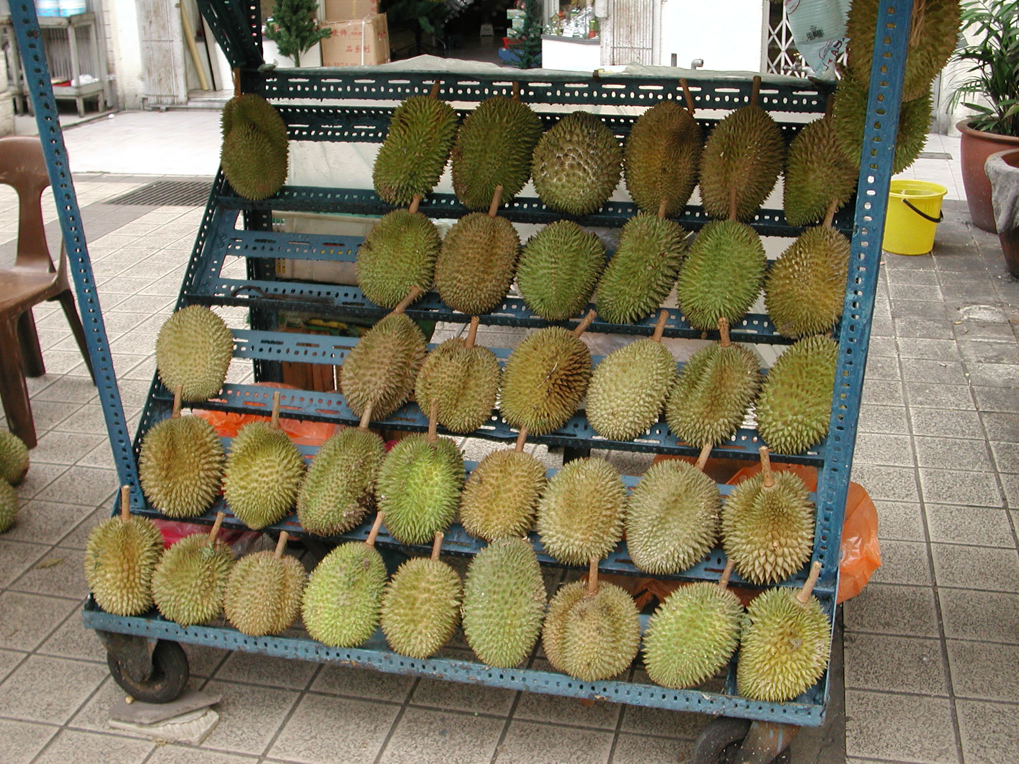 A display rack of Durians for sale by a street vendor in Kuala Lumpur, Malaysia